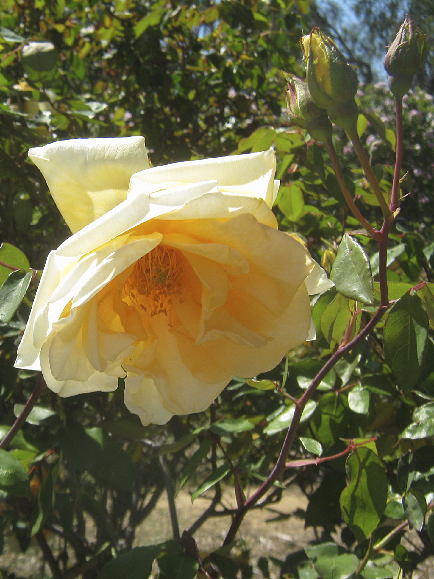 Yellow–beige Hybrid Tea rose "Linton Gold" from before 1927 found at Bishop's Lodge, Hay, NSW, where this photo was taken.